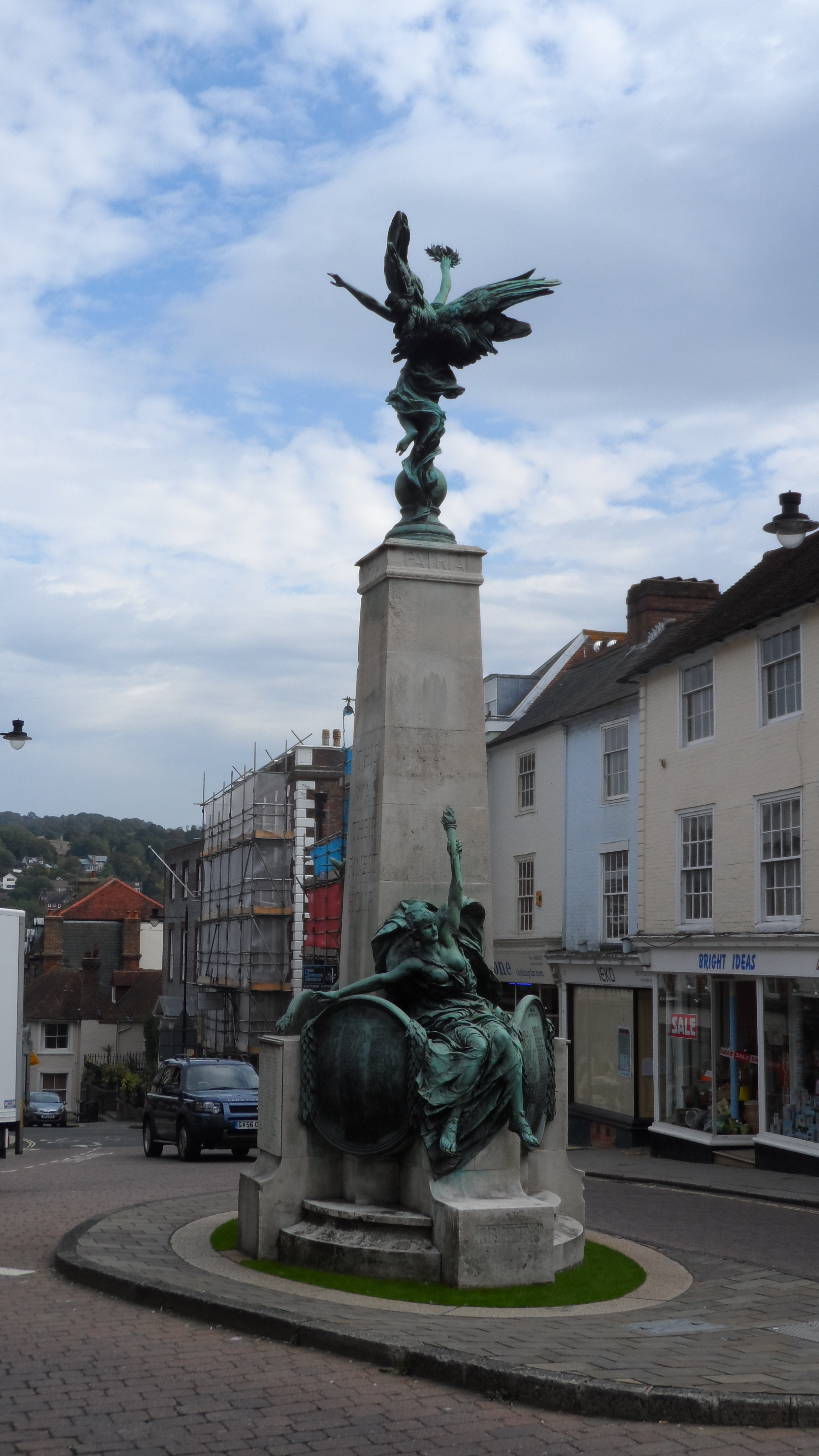 The war memorial in the High Street, Lewes, East Sussex, in September 2013.